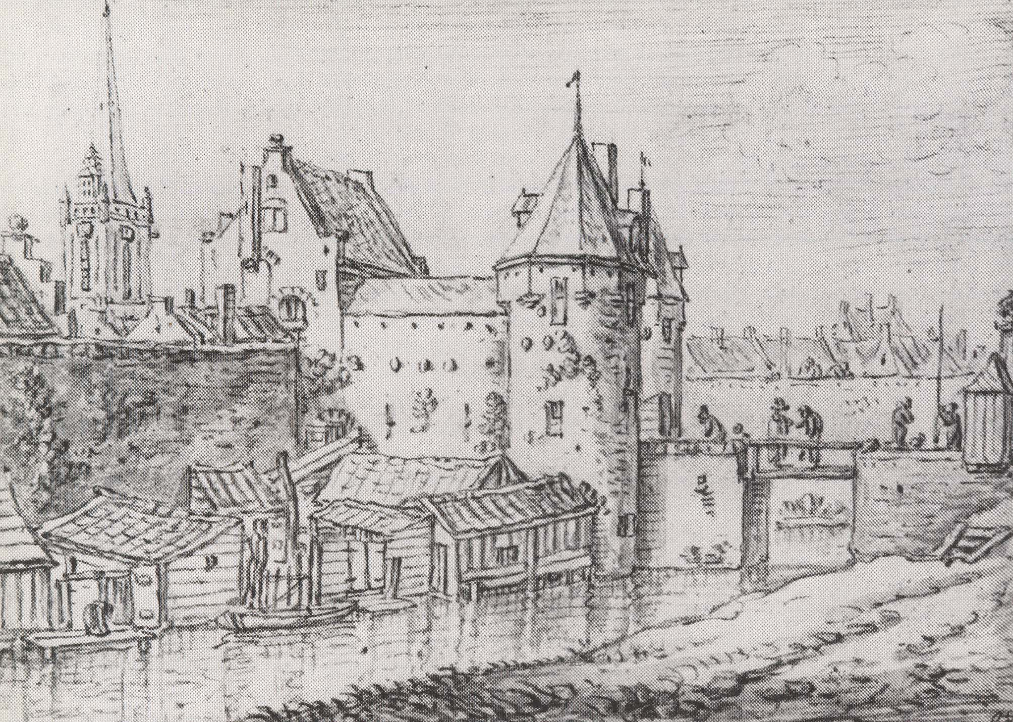 Weerdpoort as the northern city gate in the city of Utrecht. The gate was demolished between circa 1845 and 1862.